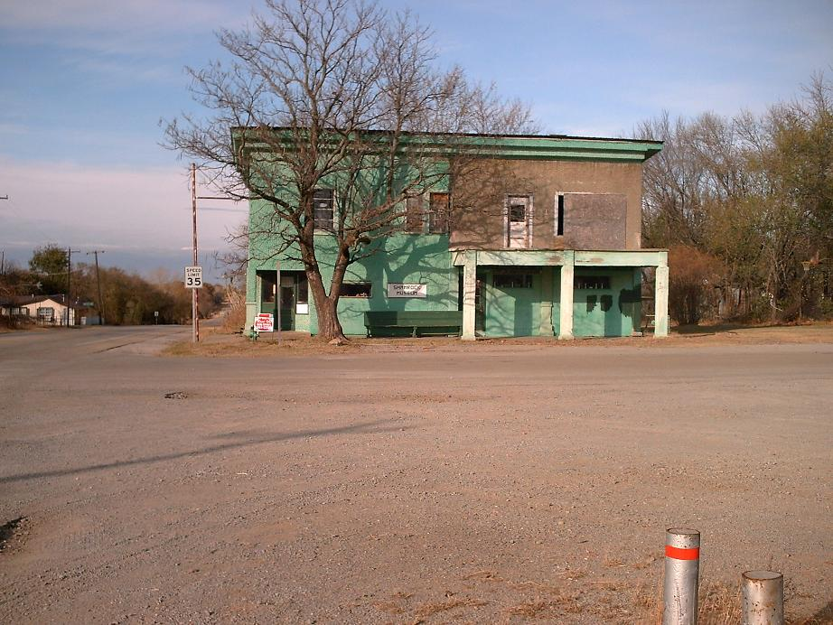 Looking north down State Highway 16 towards the Shamrock Museum in Shamrock, Oklahoma. Photo taken November 2005.